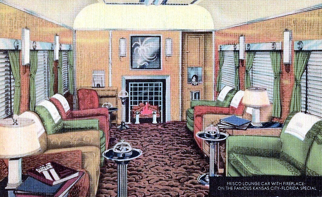 Postcard depiction of the lounge car of Frisco Railroad's Kansas City-Florida Special. Note the lounge car has a working fireplace.